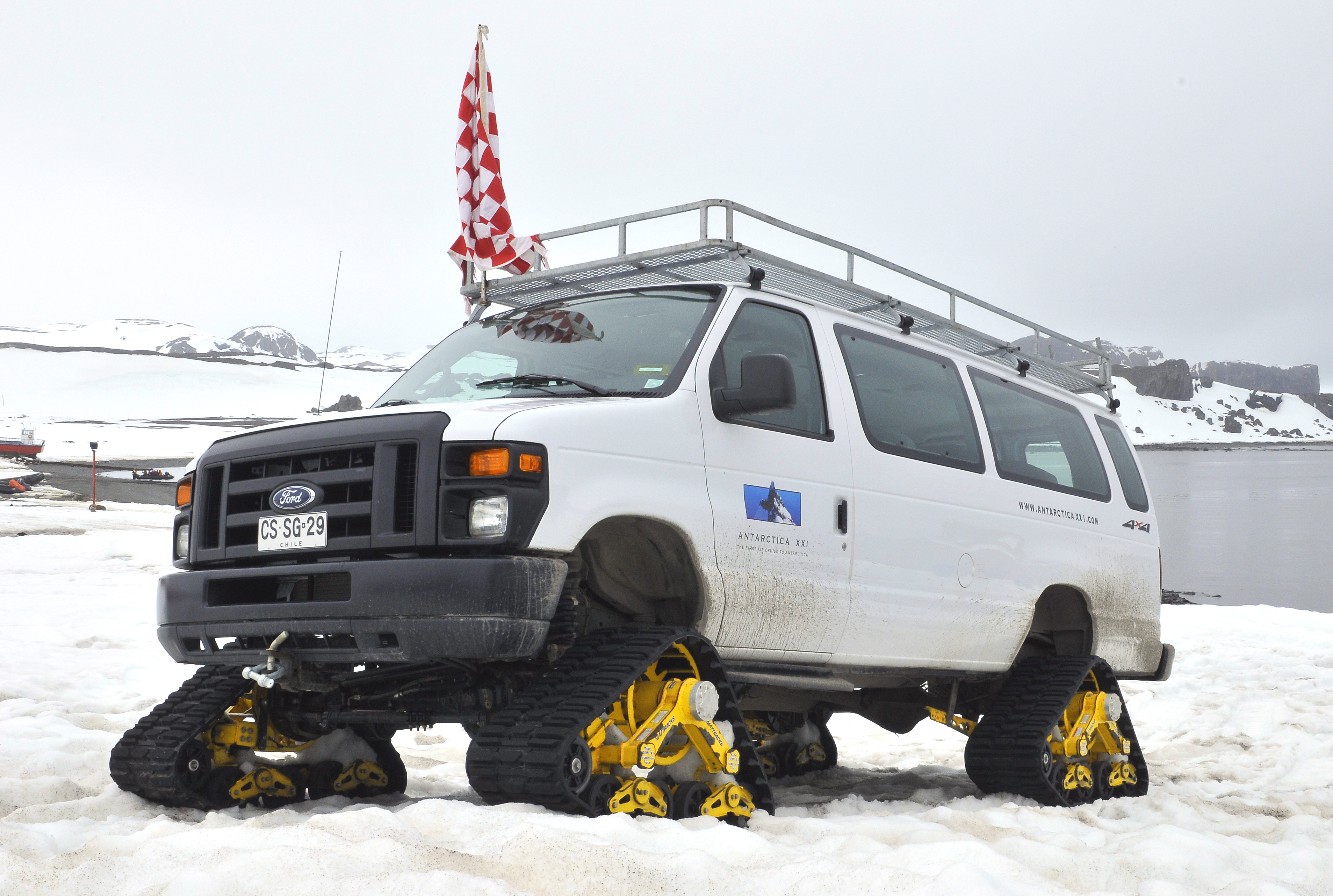 A van adapted for the snow. King George Island, South Shetland Islands, Antarctica